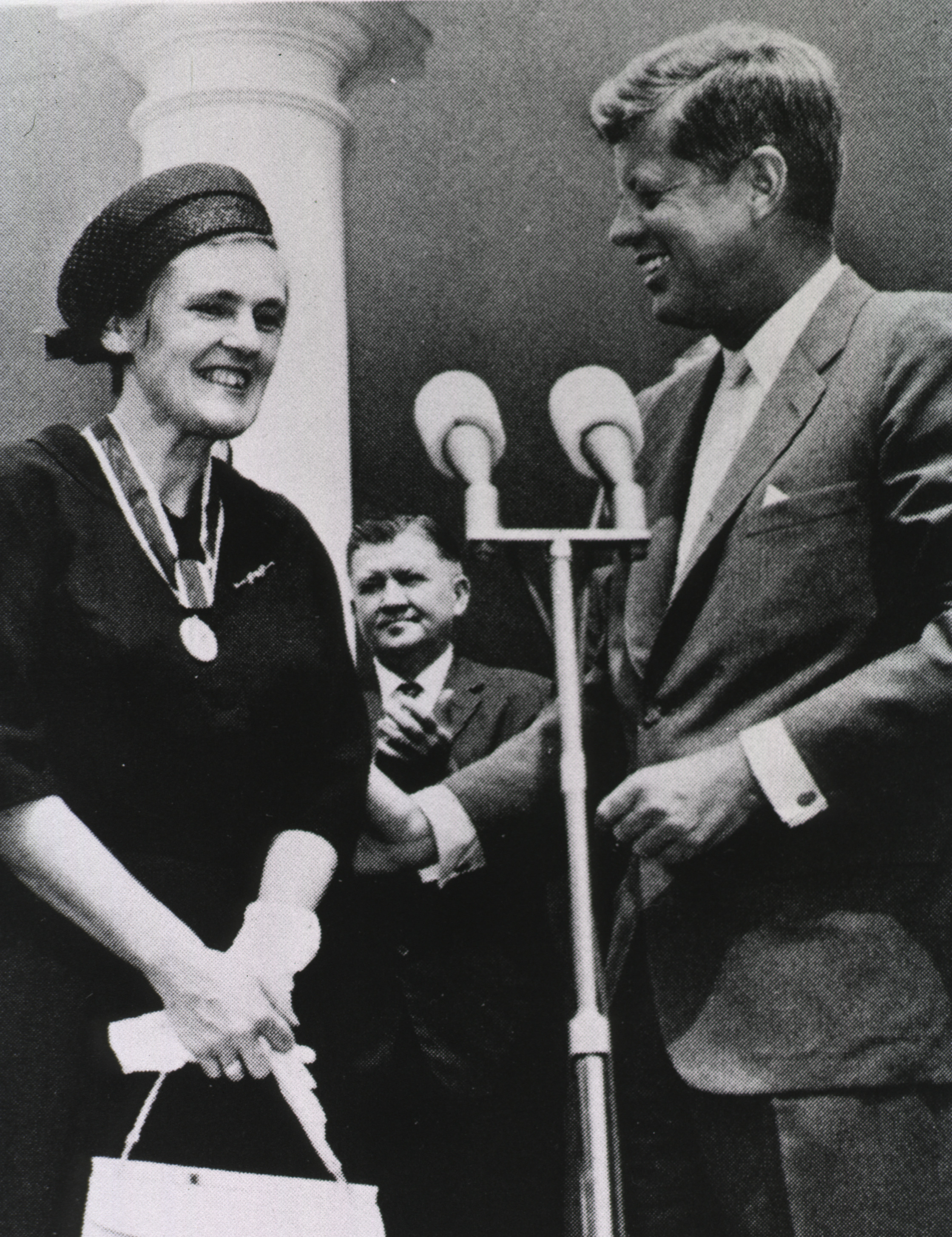 Frances Kathleen Oldham Kelsey receiving the President's Award for Distinguished Federal Civilian Service from President John F. Kennedy, in 1962.